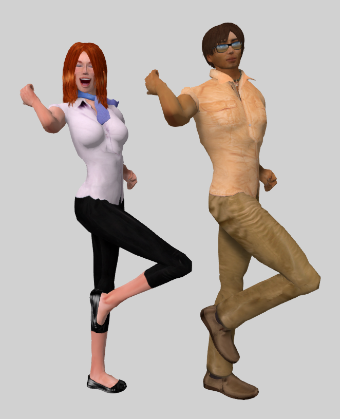 Īne Dance ("I like it" dance) perfomed by DA PUMP (Japanese boy band) in the song "U.S.A."